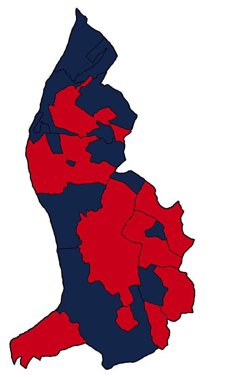 Municipalities colord with the colors of largest parties in each municipality